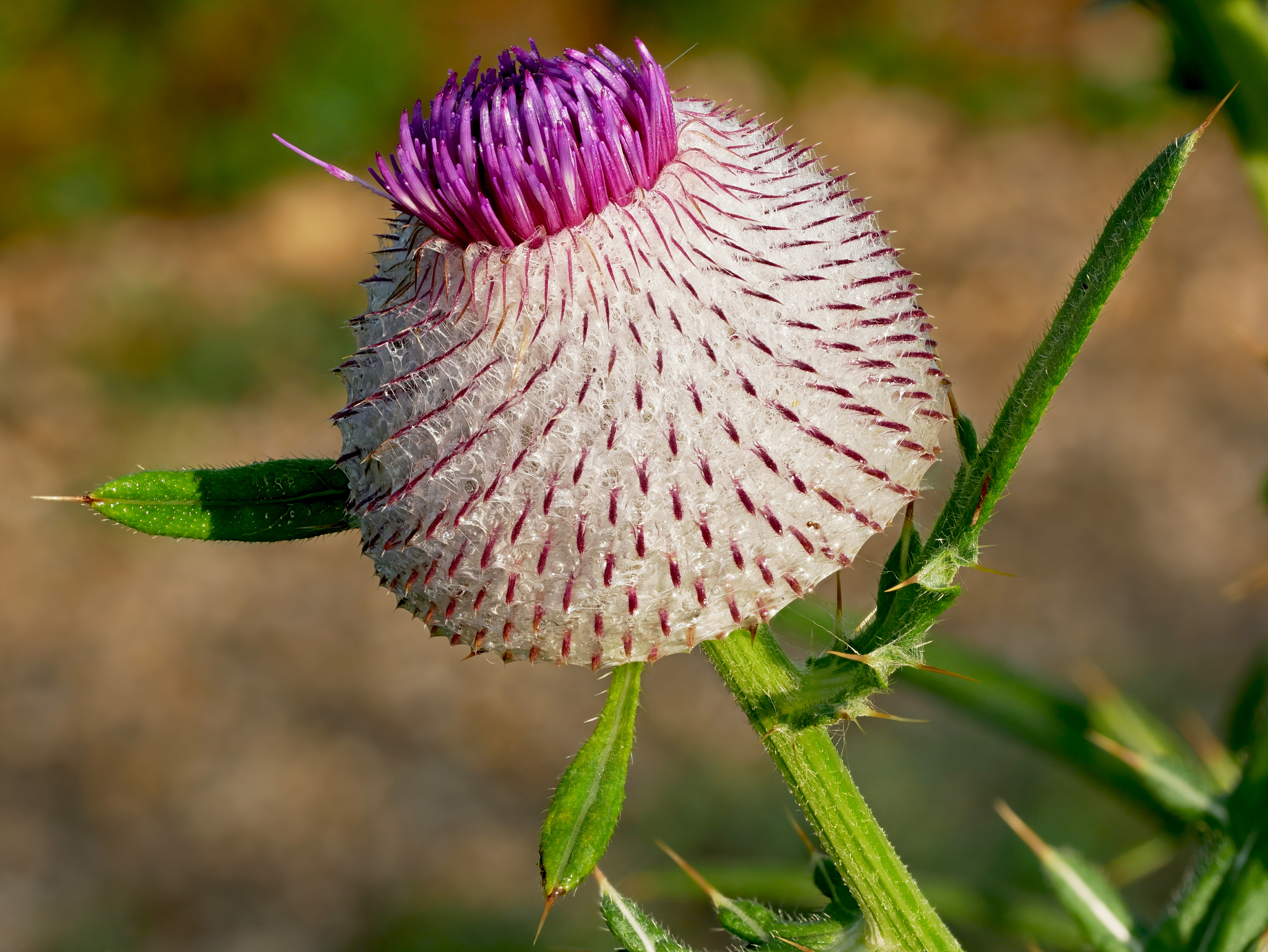 Cirsium еriophorum, Kozara National Park, Republika Srpska, Bosnia and Herzegovina. Diameter of flower is around 4 cm. Српски (ћирилица): Cirsium еriophorum, Национални парк Козара, Република Српска, Босна и Херцеговина. Коњски трн (Cirsium eriophonim) je зељаста биљка из фамилије Asteraceae, висока 100-150 cm. Цвета од краја јуна до септембра. Диаметар цвета је око 4 cm. Национални парк „Козара", Приједор, Градишка, Коз. Дубица ID добра: NP002 This image was uploaded as part of Trace of Soul 2017. This photograph was taken with a Panasonic Lumix DMC-G85/G80